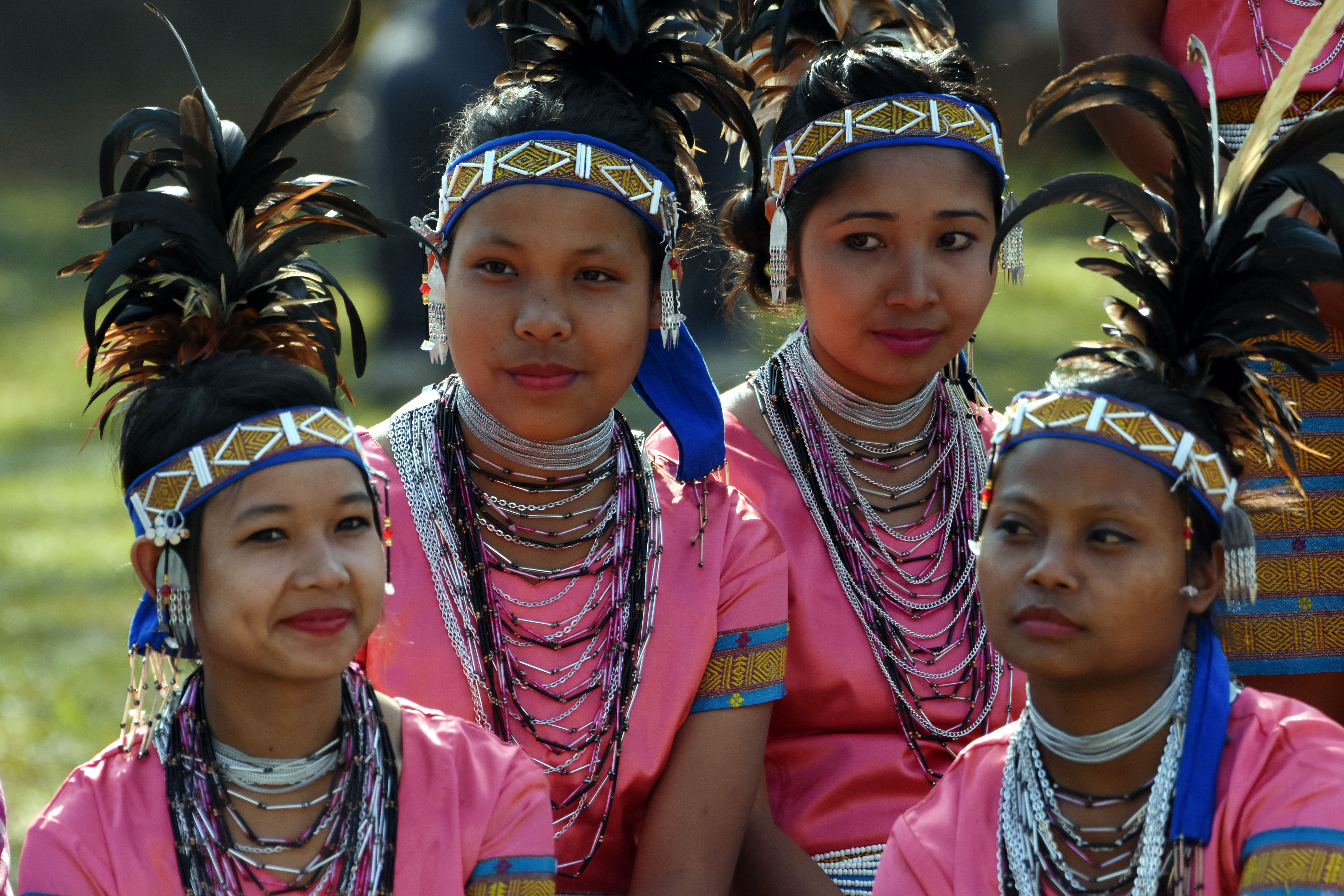 Garo girls wearing traditional dress during Awe festival at Resubelpara, North Garo Hills, Meghalaya, India.